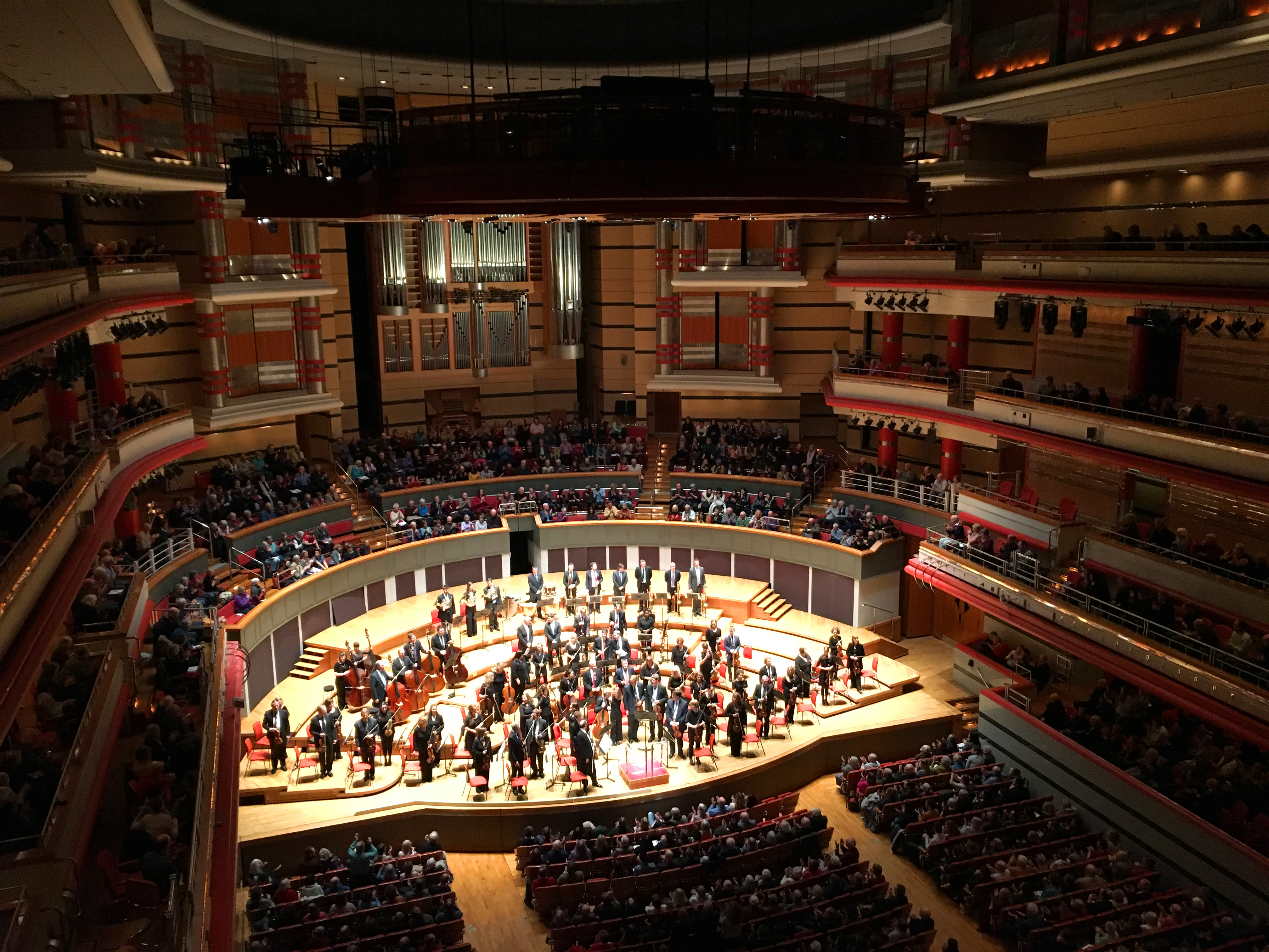 Mirga Gražinytė-Tyla and the City of Birmingham Symphony Orchestra take the applause after a performance at Symphony Hall, Birmingham, 29 January 2017